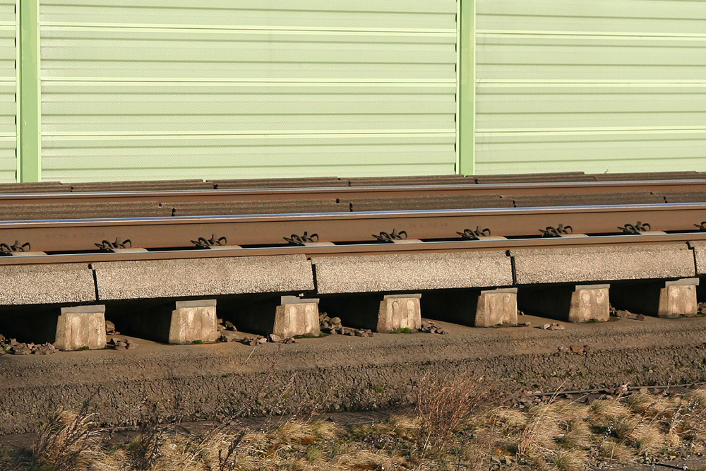 Slab track on the Hannover-Berlin high-speed railway line, near Staffelde.